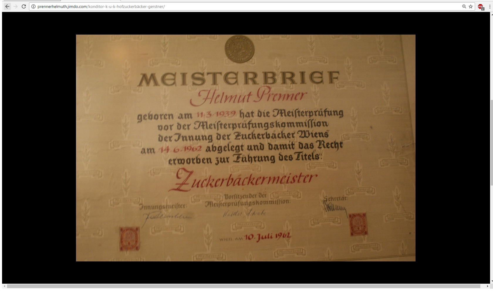 SHSH TSS